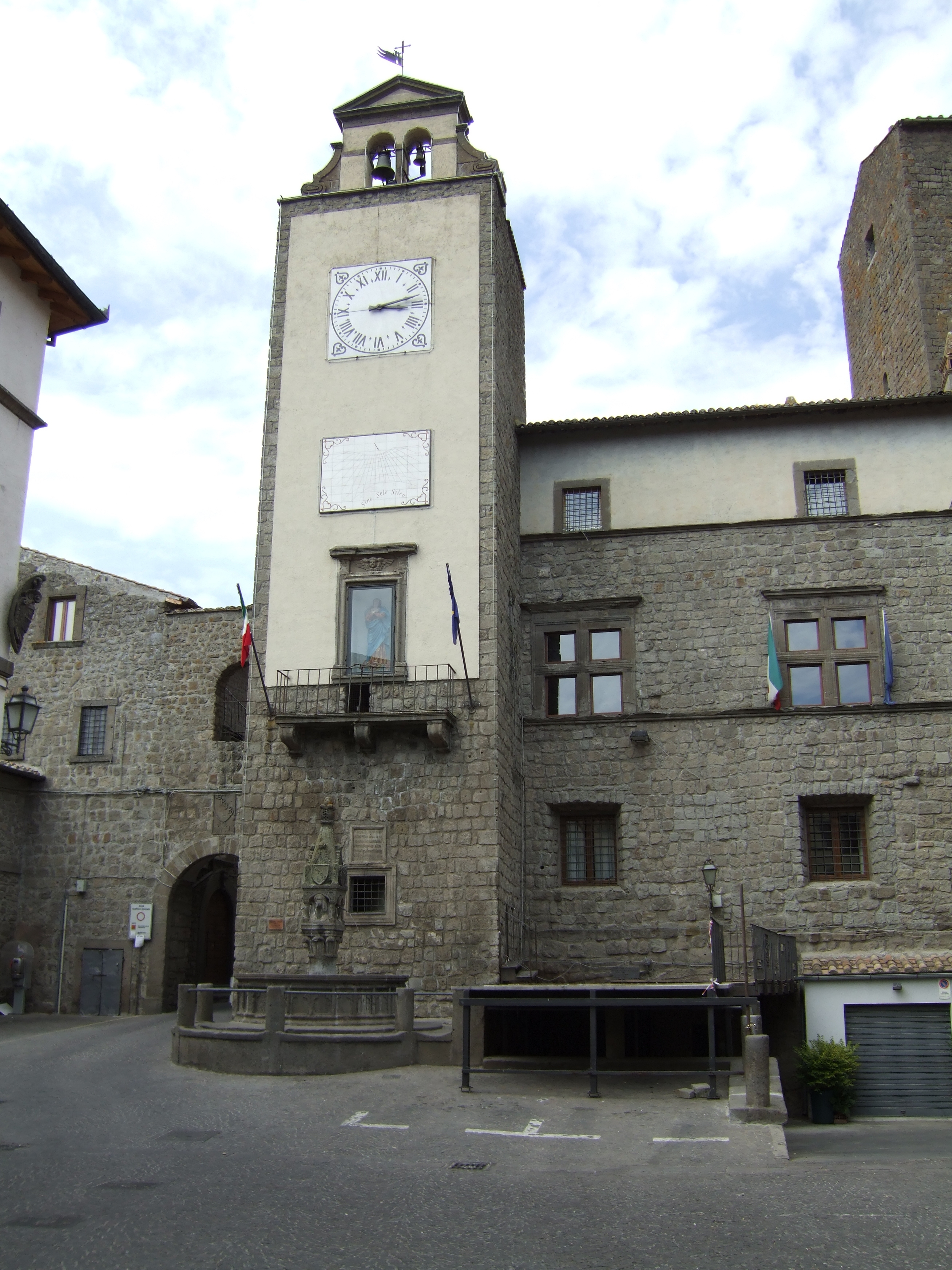 Vitorchhiano (VT) - Town Hall